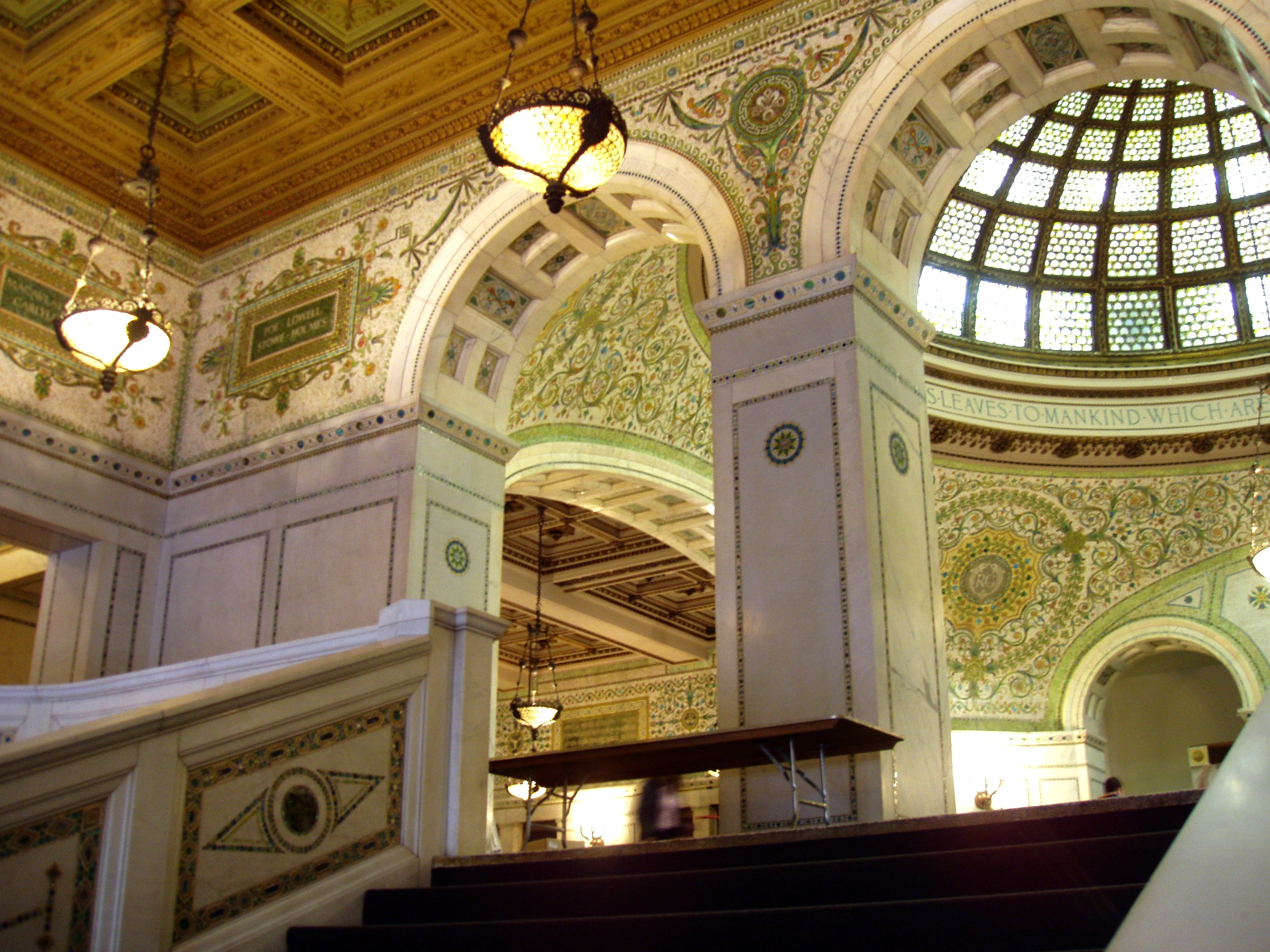 Chicago Cultural Center - Grand Staircase and Preston Bradley Hall. The 38-foot dome is by J. A. Holtzer of the Tiffany Glass & Decorating Company. The cultural center states that it is the largest Tiffany dome in the world. Building construction was completed in 1897. Chicago Cultural Center, Chicago, Illinois, USA.